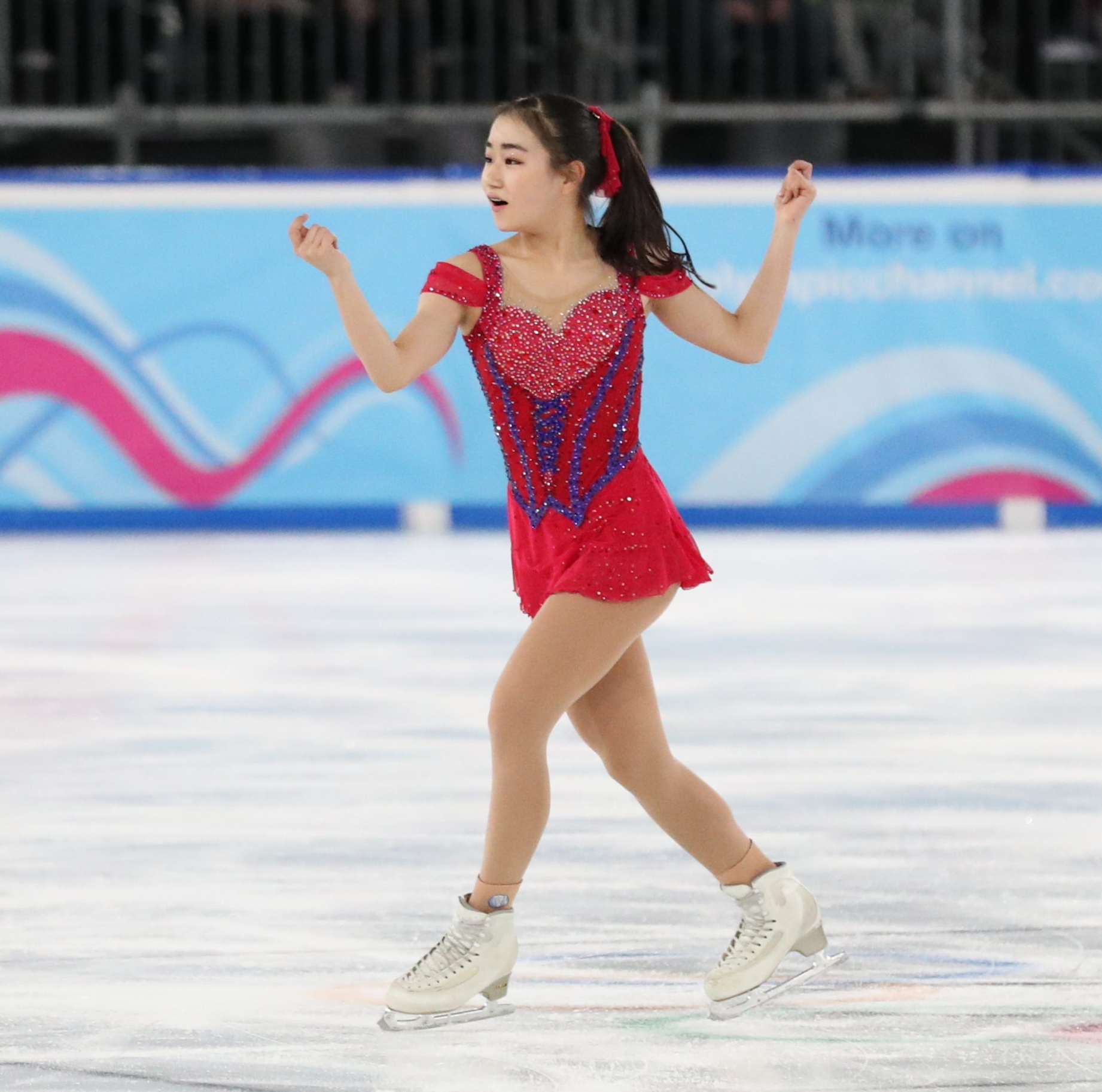 Women Single Figure Skating Short Program at the 2020 Winter Youth Olympics in Lausanne